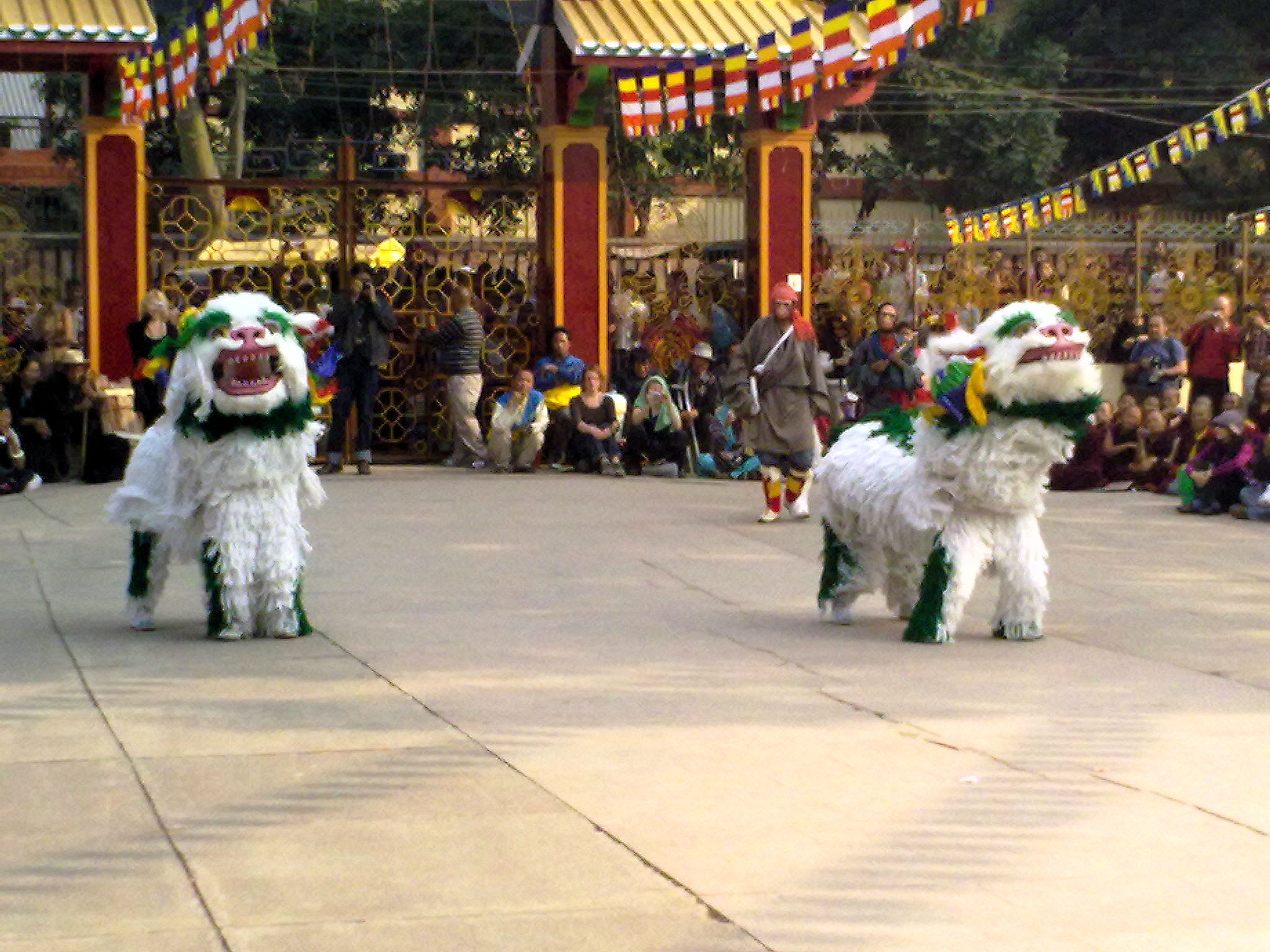 Snow lion dance at the "Karma Temple", Kagyu Monlam 2010/11, Bodhgaya